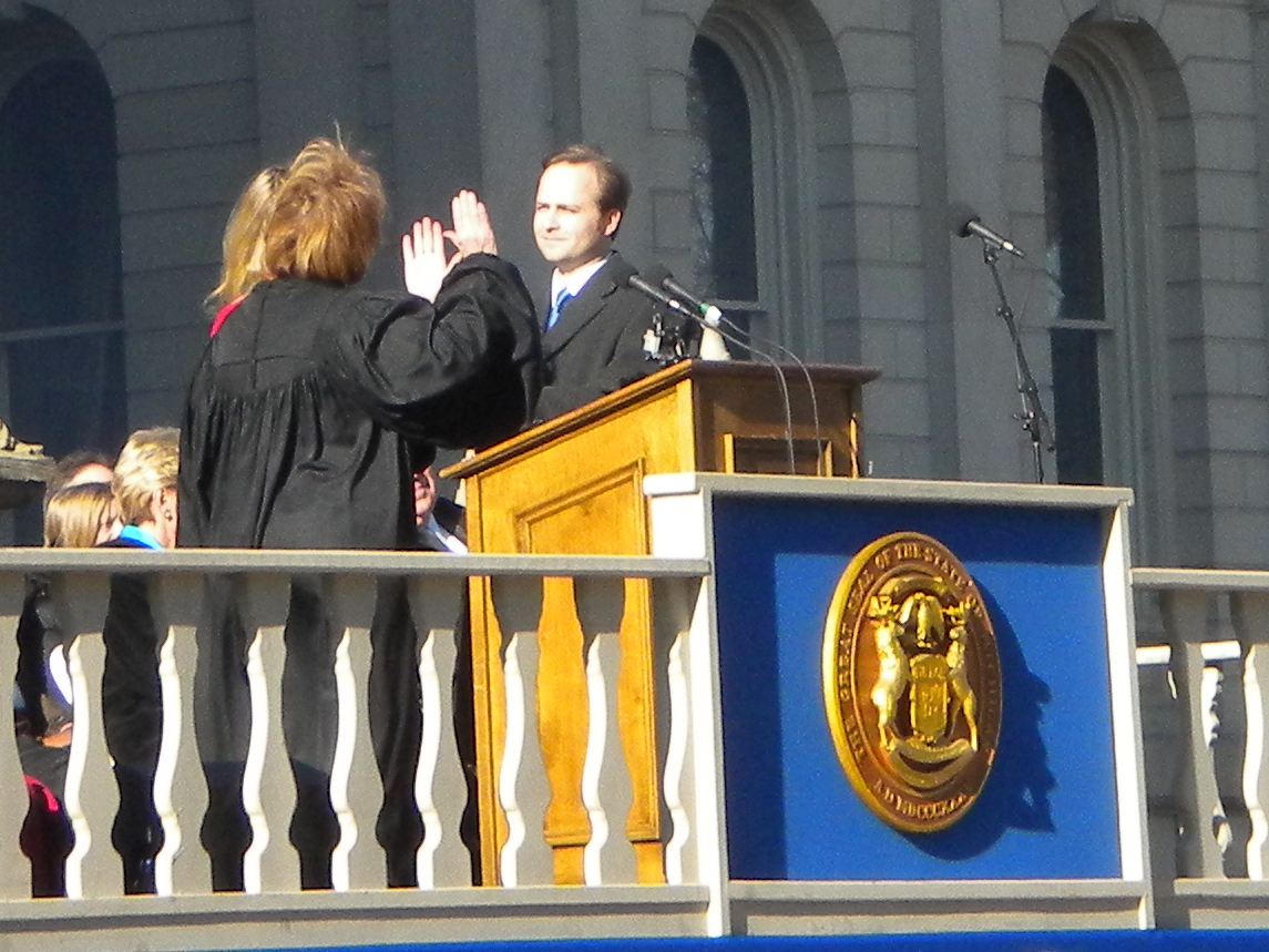 Michigan Lieutenant Governor Brian Calley takes the oath of office from Supreme Court Chief Justice Marilyn Kelly at a ceremony on the steps of the Capitol in Lansing on January 1, 2011.